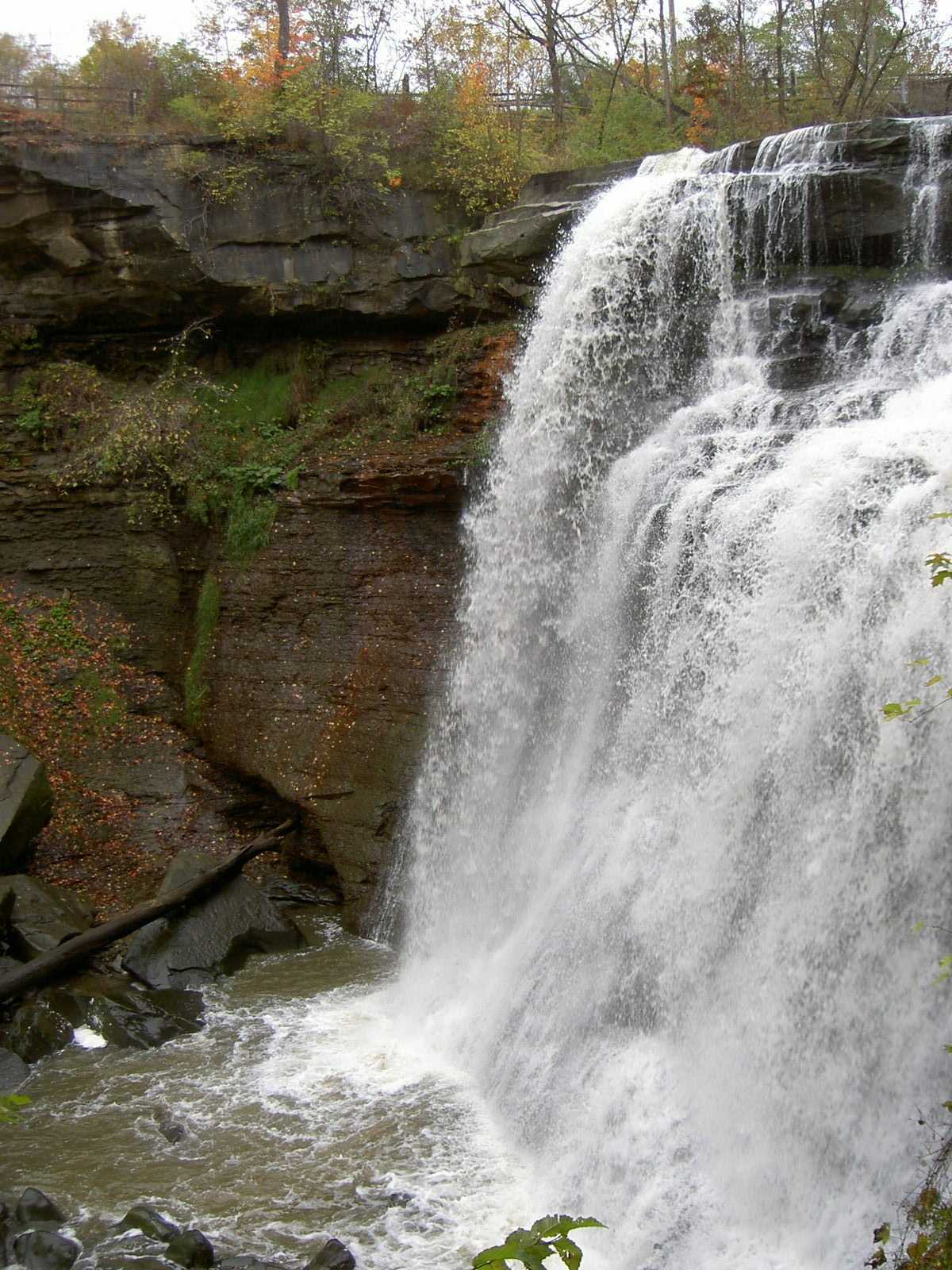 Brandywine Falls, Brandywine Road and Stanford Road, Brandywine Village, Sagamore Hills, Ohio